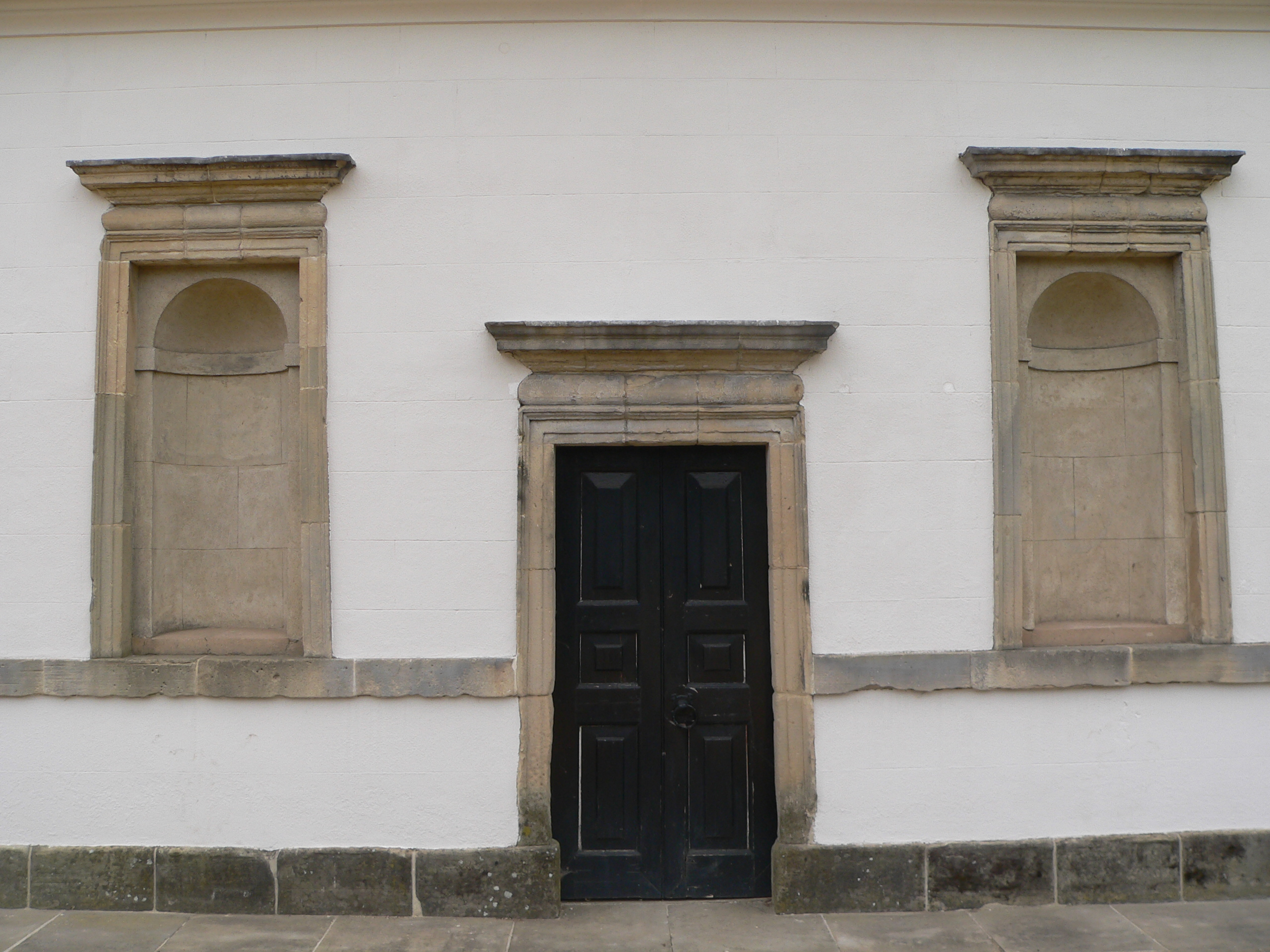 Exterior of the Deer House